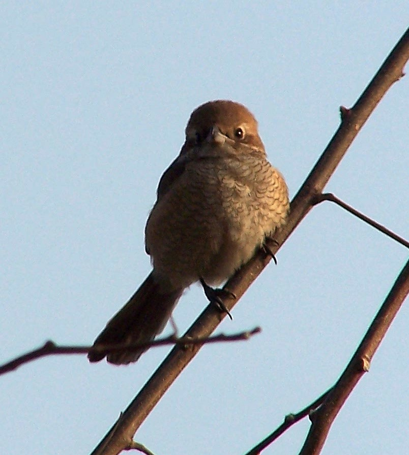 Bull headed shrike